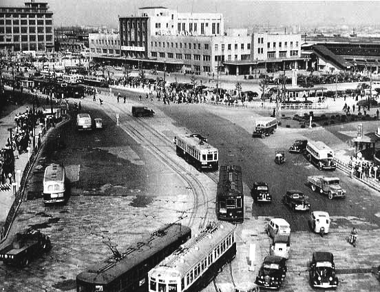 Osaka Station (the third depot, front).